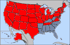 Presidential elections in the USA 1952 - results by state